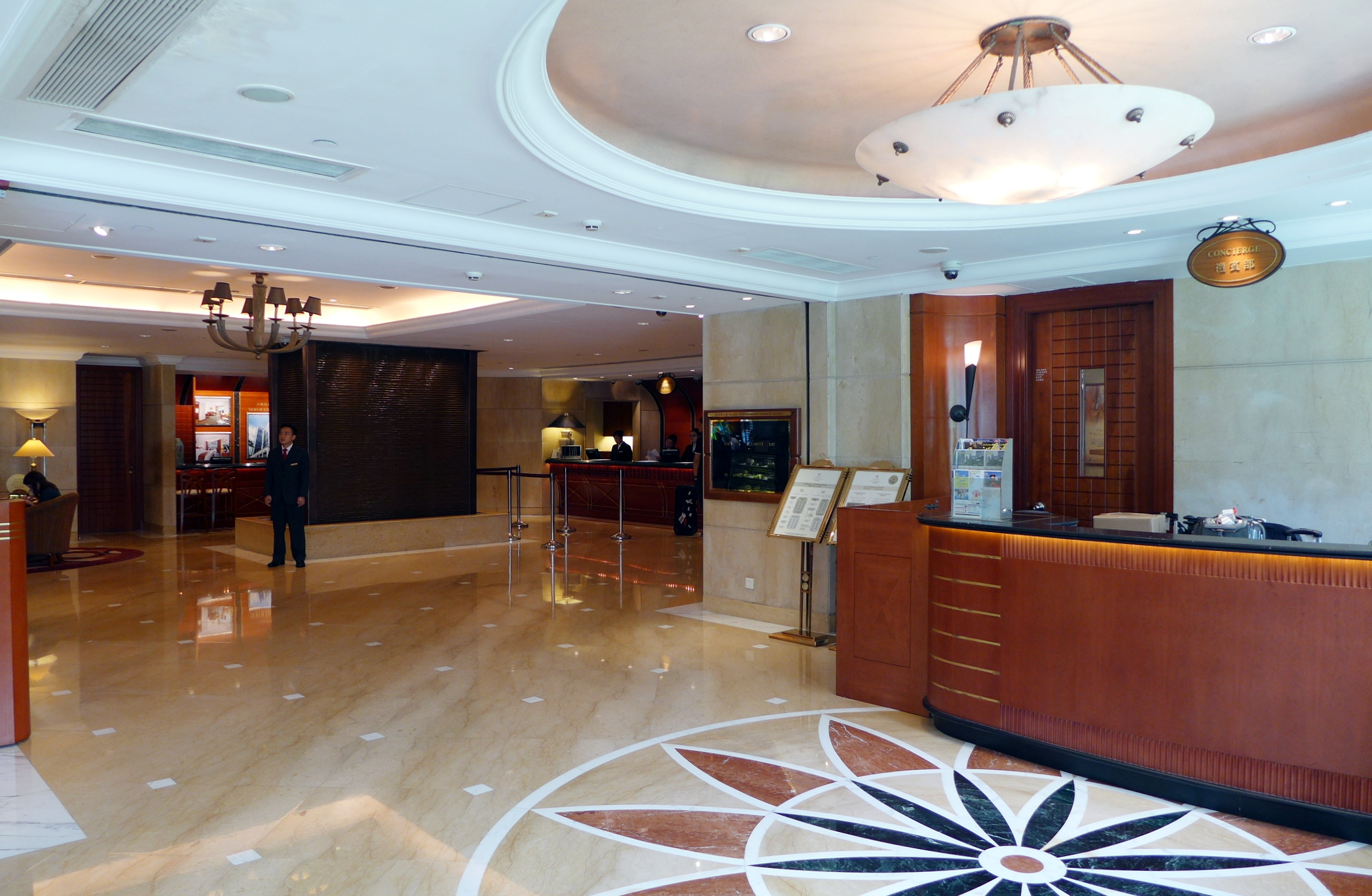 Harbour Plaza North Point Lobby